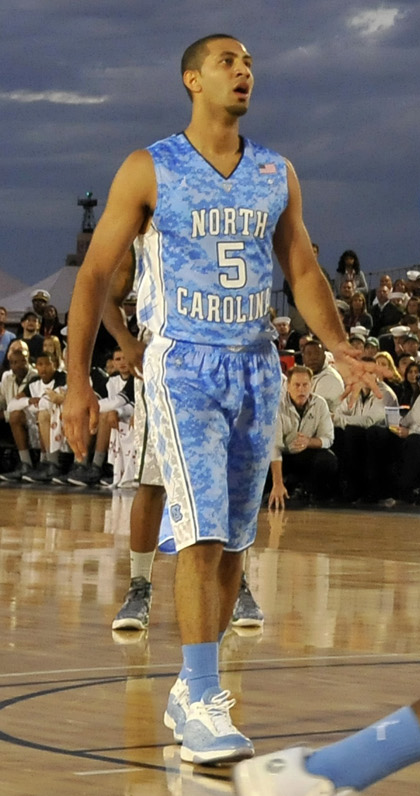 SAN DIEGO (Nov. 11, 2011) Michigan State University guard Brandon Wood (#30) performs a lay-up during the Carrier Classic basketball game aboard the Nimitz-class aircraft carrier USS Carl Vinson (CVN 70). Carl Vinson is hosting Michigan State University and the University of North Carolina for an NCAA Basketball game. (U.S. Navy photo by Mass Communication Specialist 3rd Class Roza Arzola/Released)